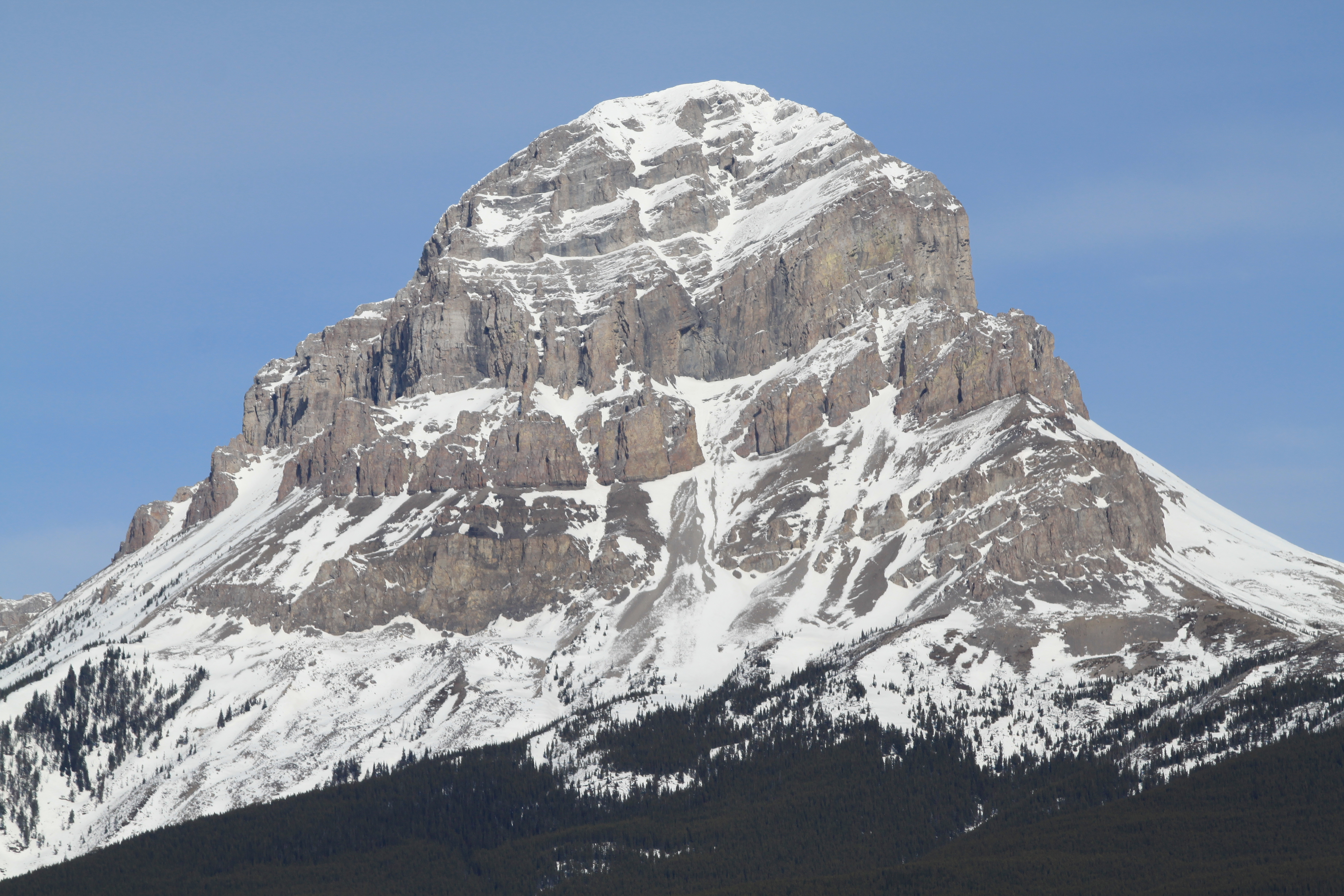 Crowsnest Mountain, Alberta, Canada. Taken from the Crowsnest Highway in Crowsnest Pass.